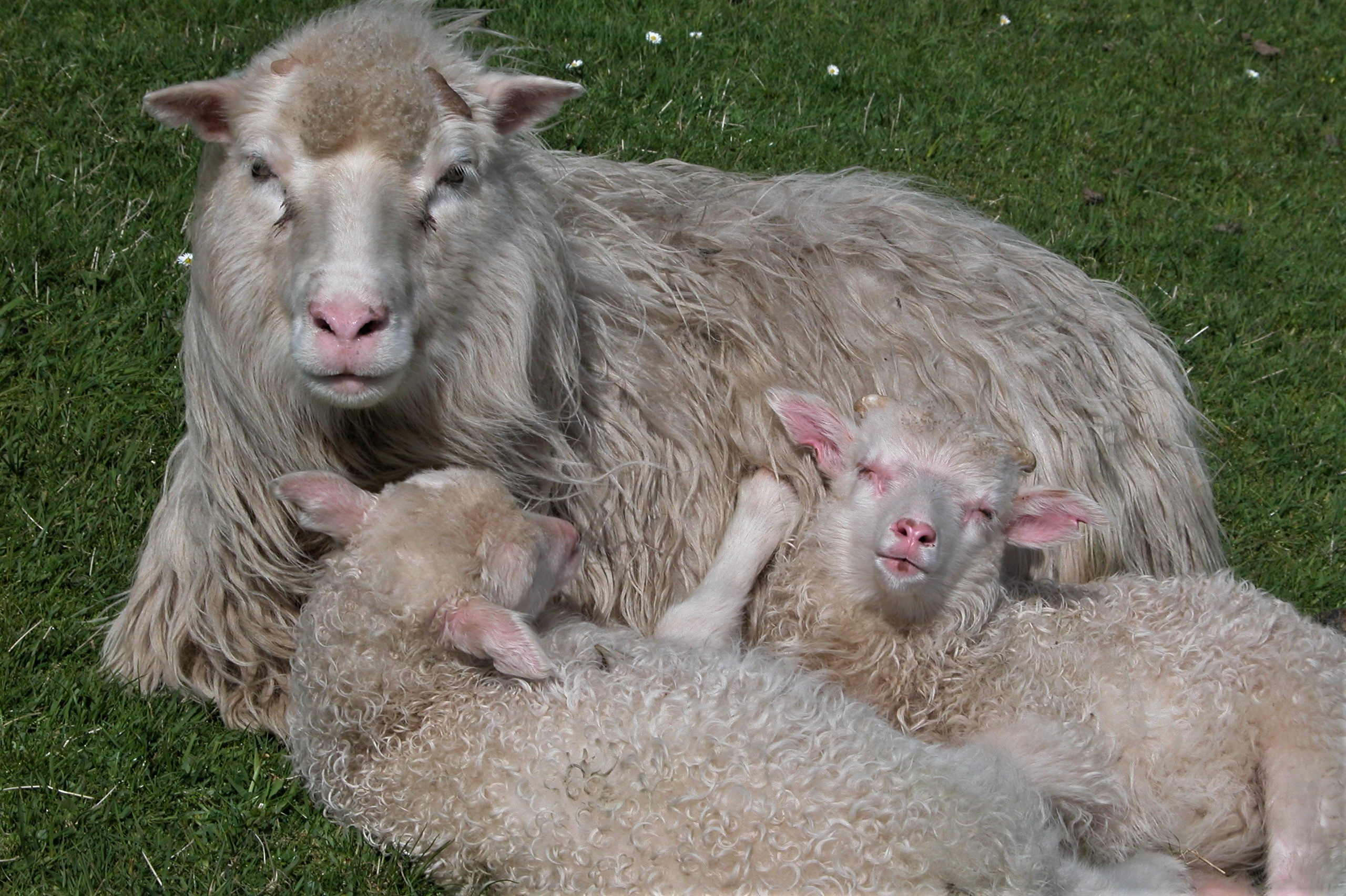 Sheeps near Porkeri, Faroe Islands